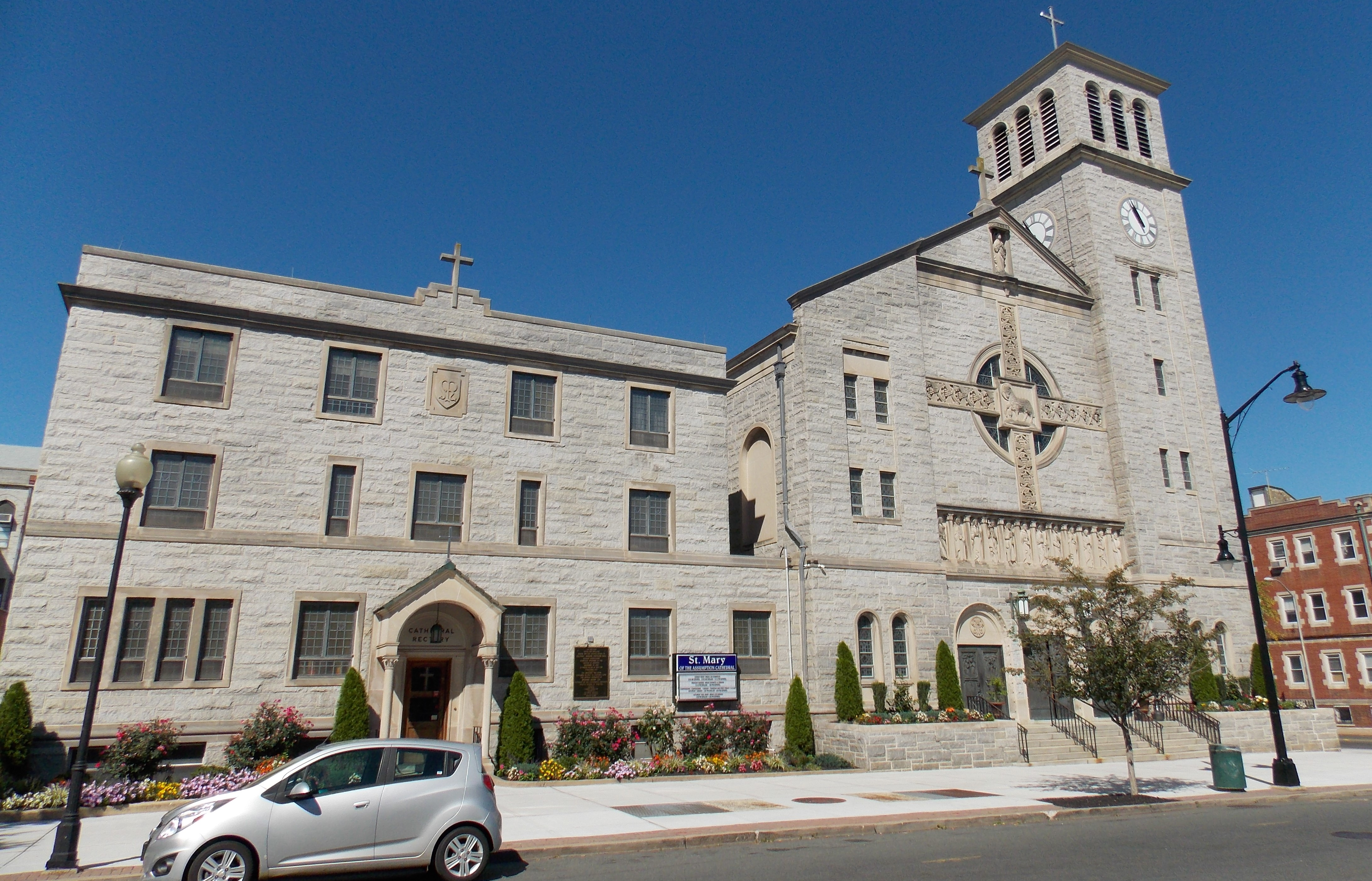 Cathedral of St. Mary of the Assumption in Trenton, New Jersey.